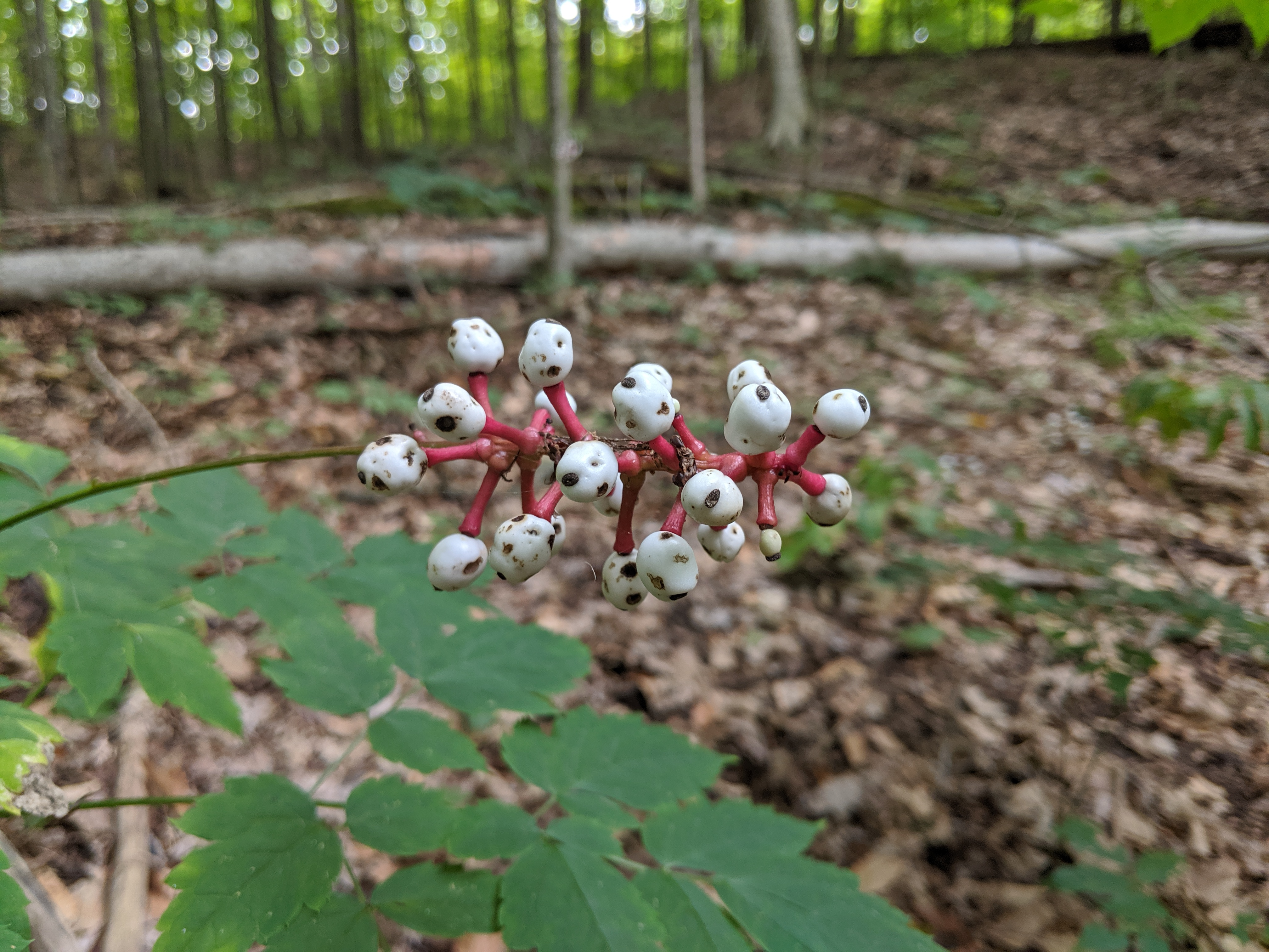 Glen Major trail in East Duffins Headwaters